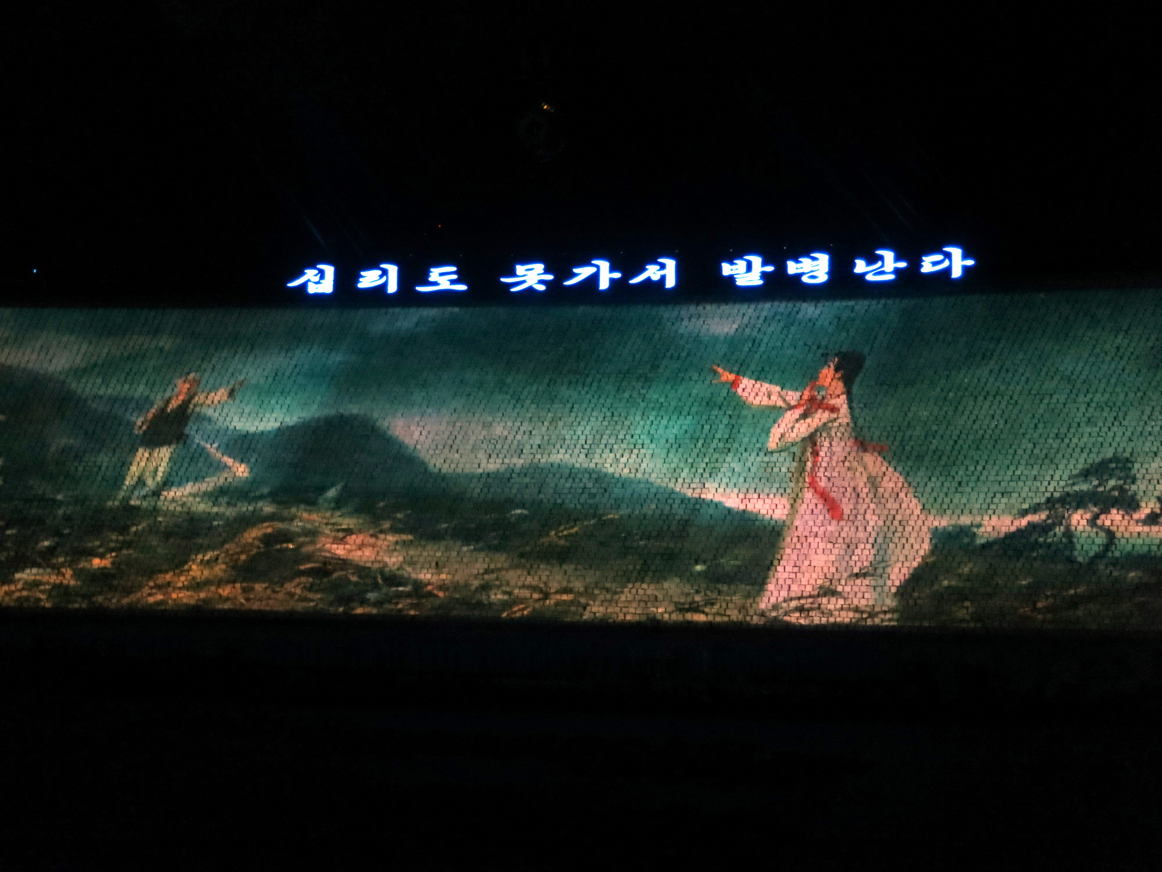 A scene from the folk song "Arirang" at the Arirang Mass Games in Pyongyang, North Korea. The lyrics read: "십리도 못가서 발병난다" (Shall not walk even ten li before his/her feet hurt.)